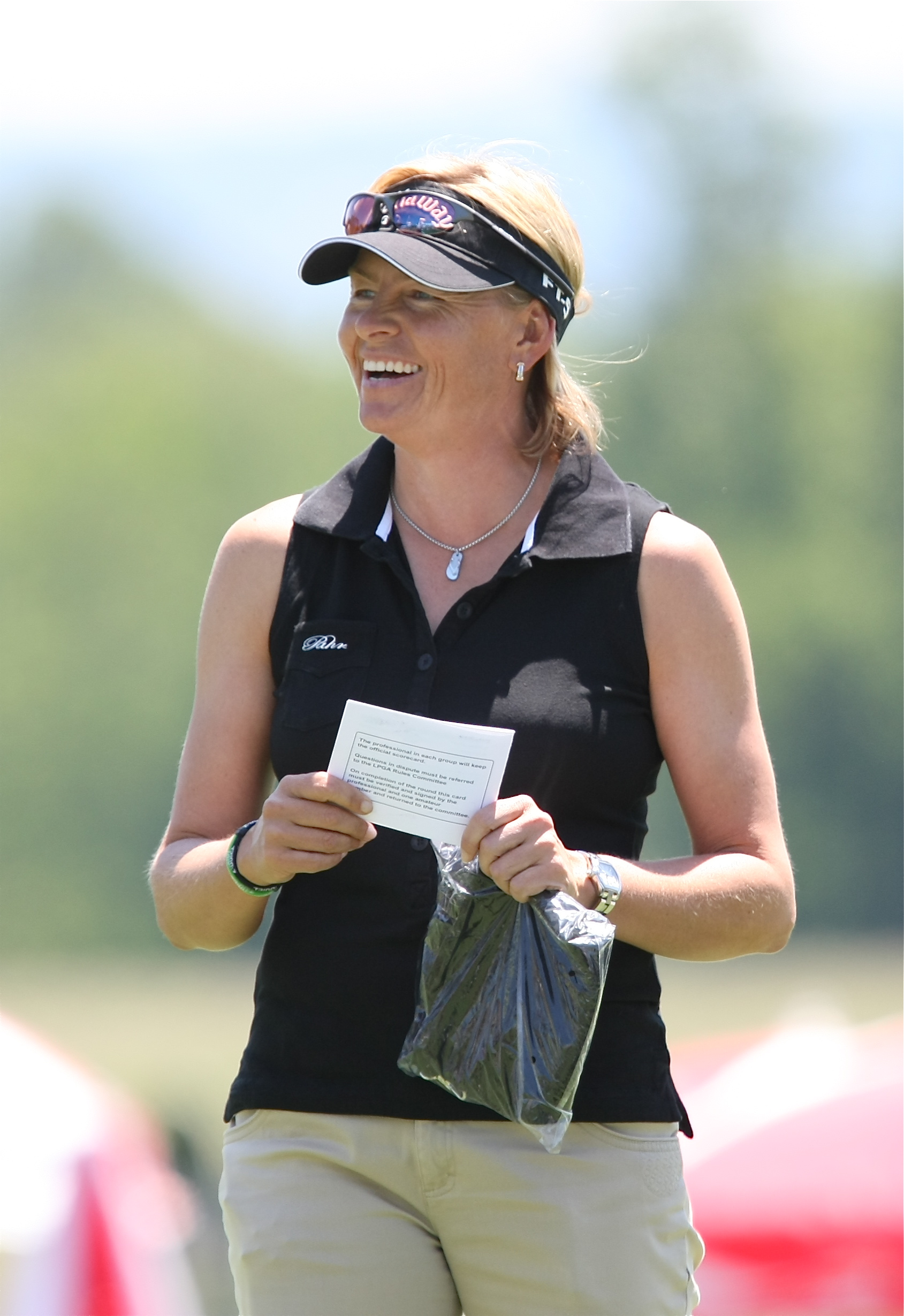 HAVRE DE GRACE, MD - JUNE 02: Liselotte Neumann (SWE) during pro-am before 2008 LPGA Championship held at Bulle Rock Golf Course, on June 2, 2008 in Havre de Grace, Maryland. (Photo by Keith Allison)